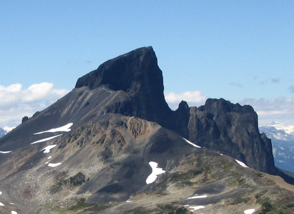 The Black Tusk in Garibaldi Provincial Park, taken from Panorama Ridge (Southeast of the Tusk).